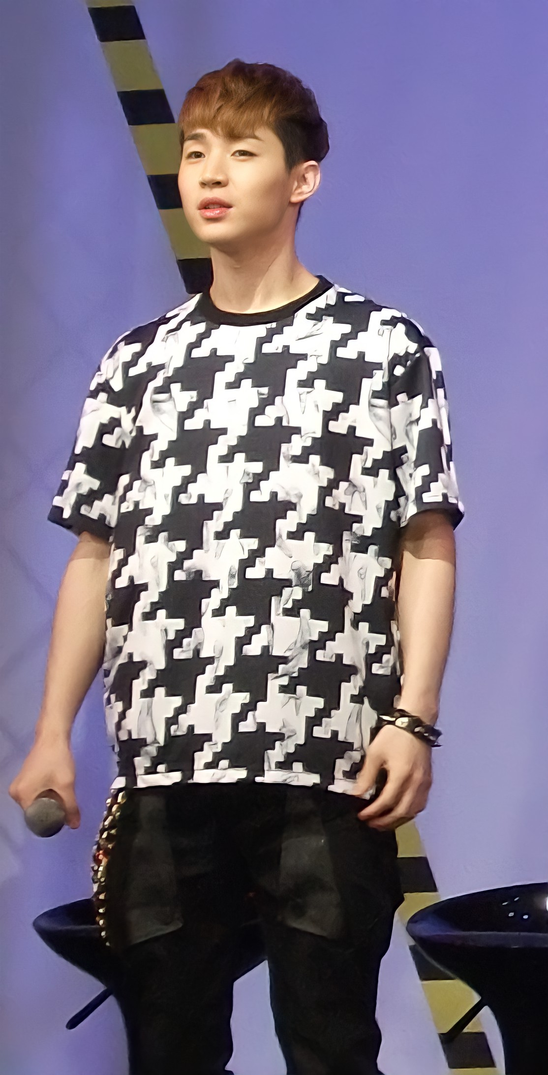 Henry Lau at press conference of Super Junior M Breakdown in Bangkok.